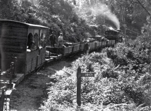 Knysna Forest Railway. also known as South Western Railway (South Africa)